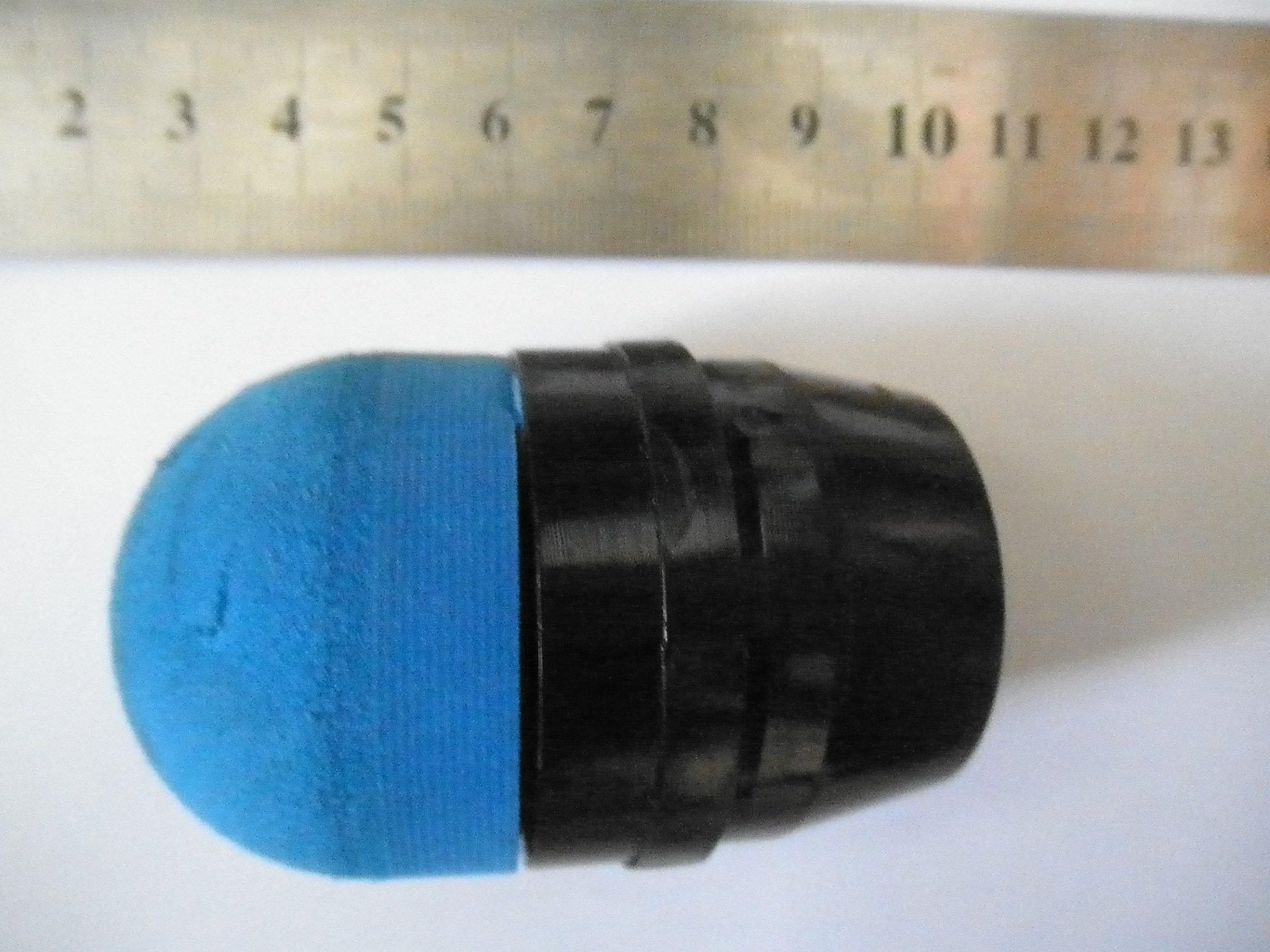 40 mm Sponge Round used by Israeli army against protesters against the separation wall in Ni'lin, July 2015